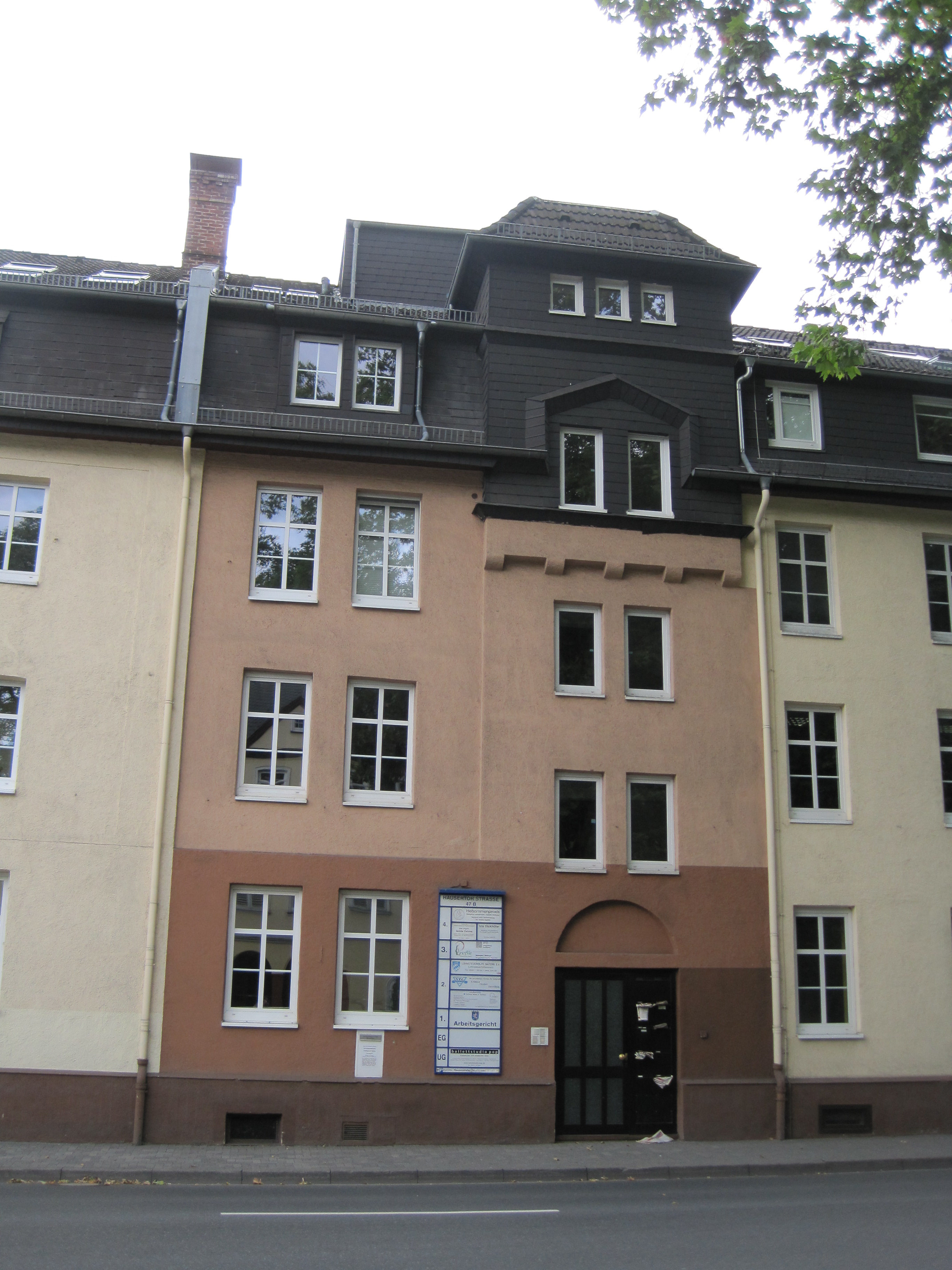 Courthouse Arbeitsgericht Wetzlar, Wetzlar, Germany check usage